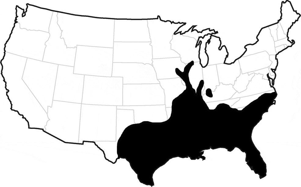 Range of Lepomis punctatus. Information from Fishes of Tennessee, Etnier and Starnes.